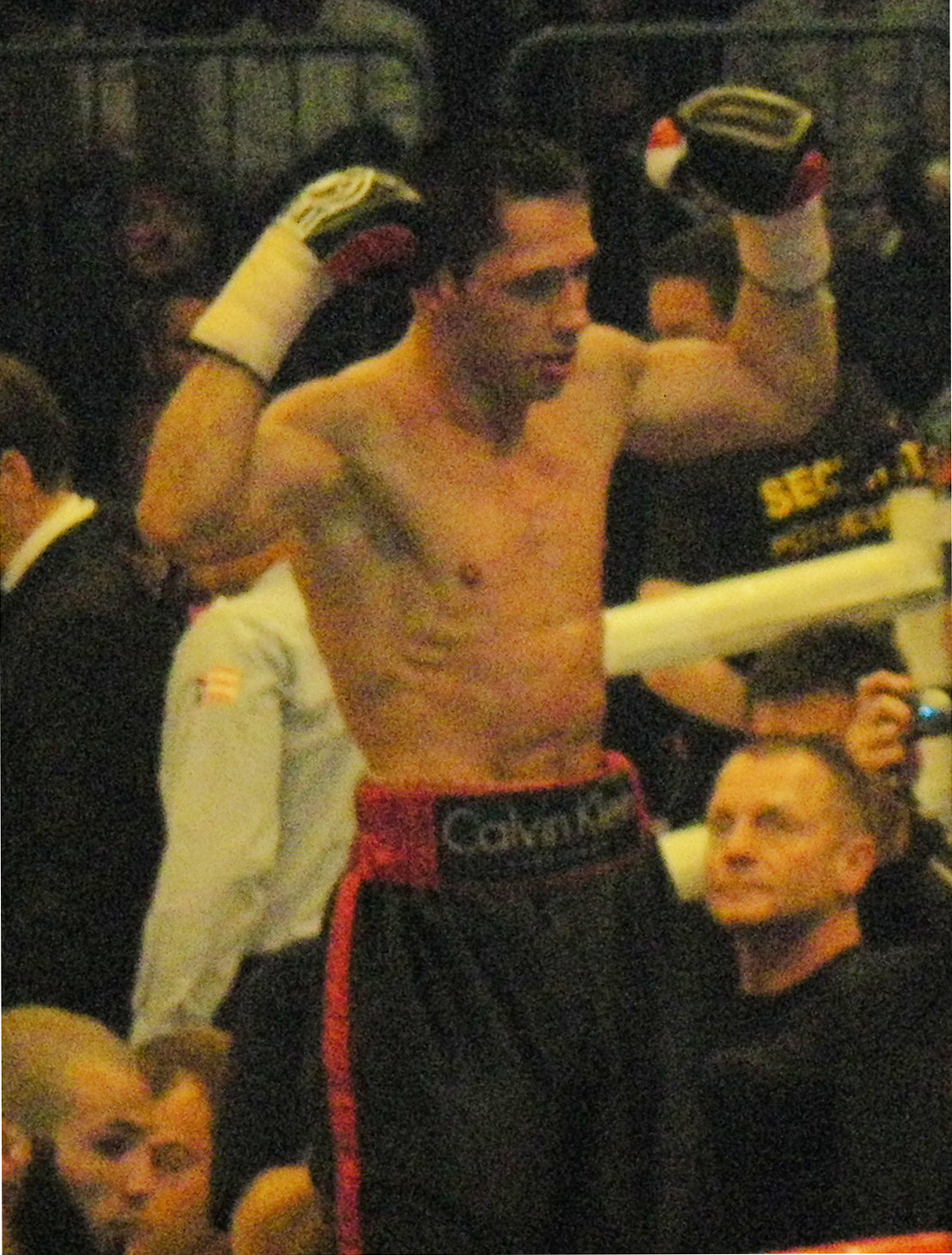 Felix Sturm, after the fight against Giovanni Lorenzo at the Lanxess Arena on September 4, 2010